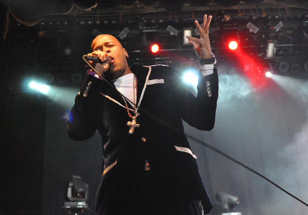 Ced-Gee performing for All Tomorrow's Parties Presents I'll Be Your Mirror on October 1, 2011 in Asbury Park, New Jersey.